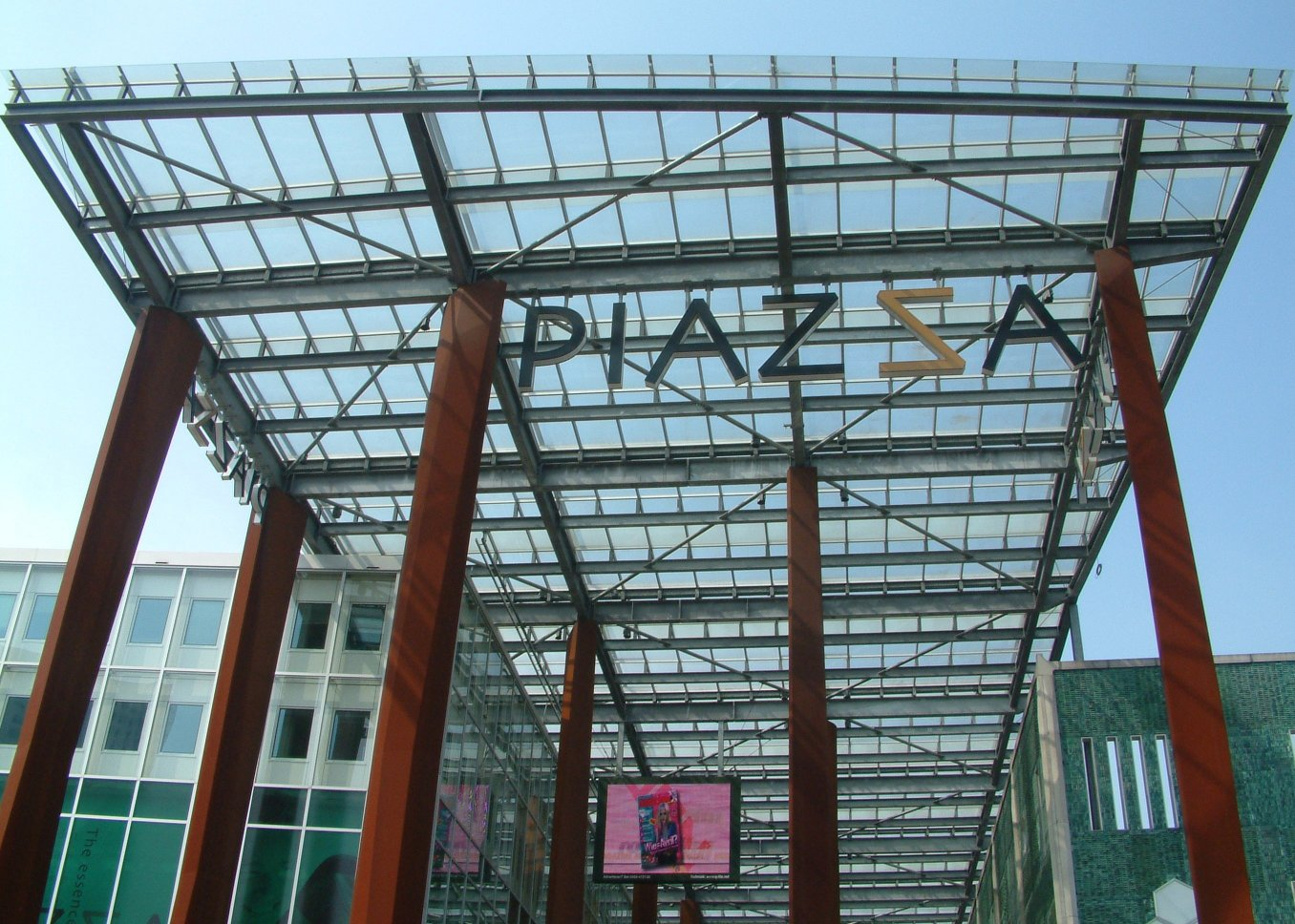 Piazza, shopping Mall in Eindhoven, entrance